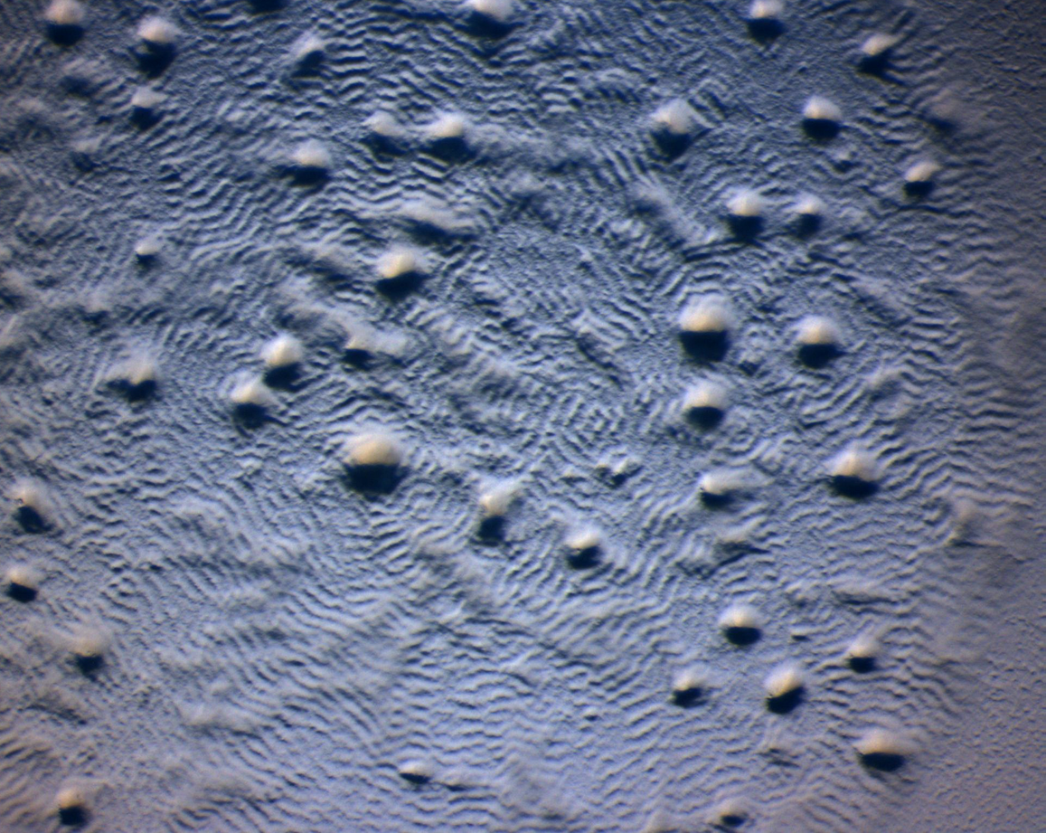 Developing colony of Myxococcus xanthus displays rippling.